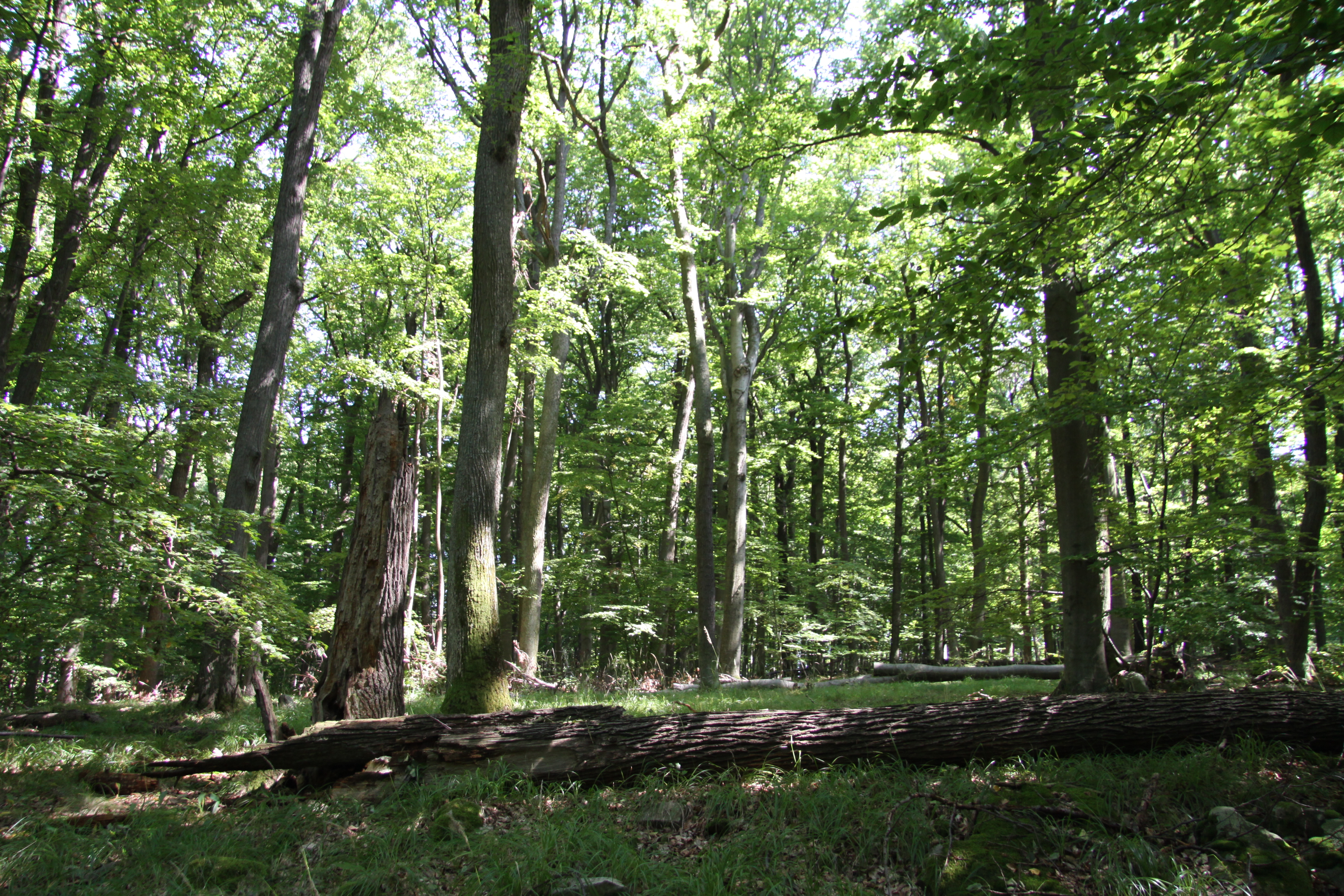 Natural reservation called "Čertova hora u Vráže", Písek District, Czech Republic - Google Maps - Google Earth